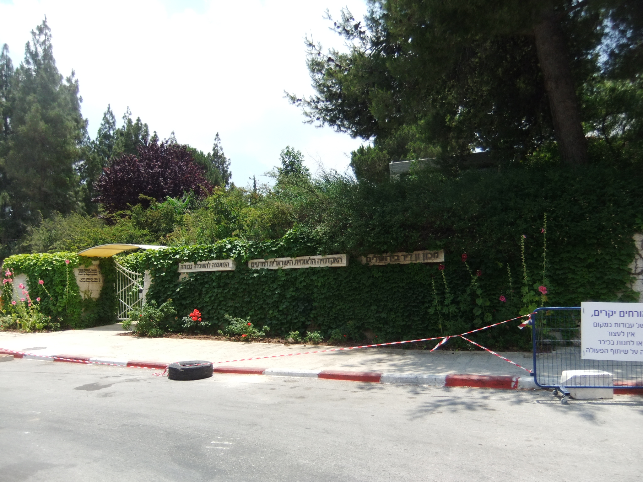 National acadmy in Jerusalem